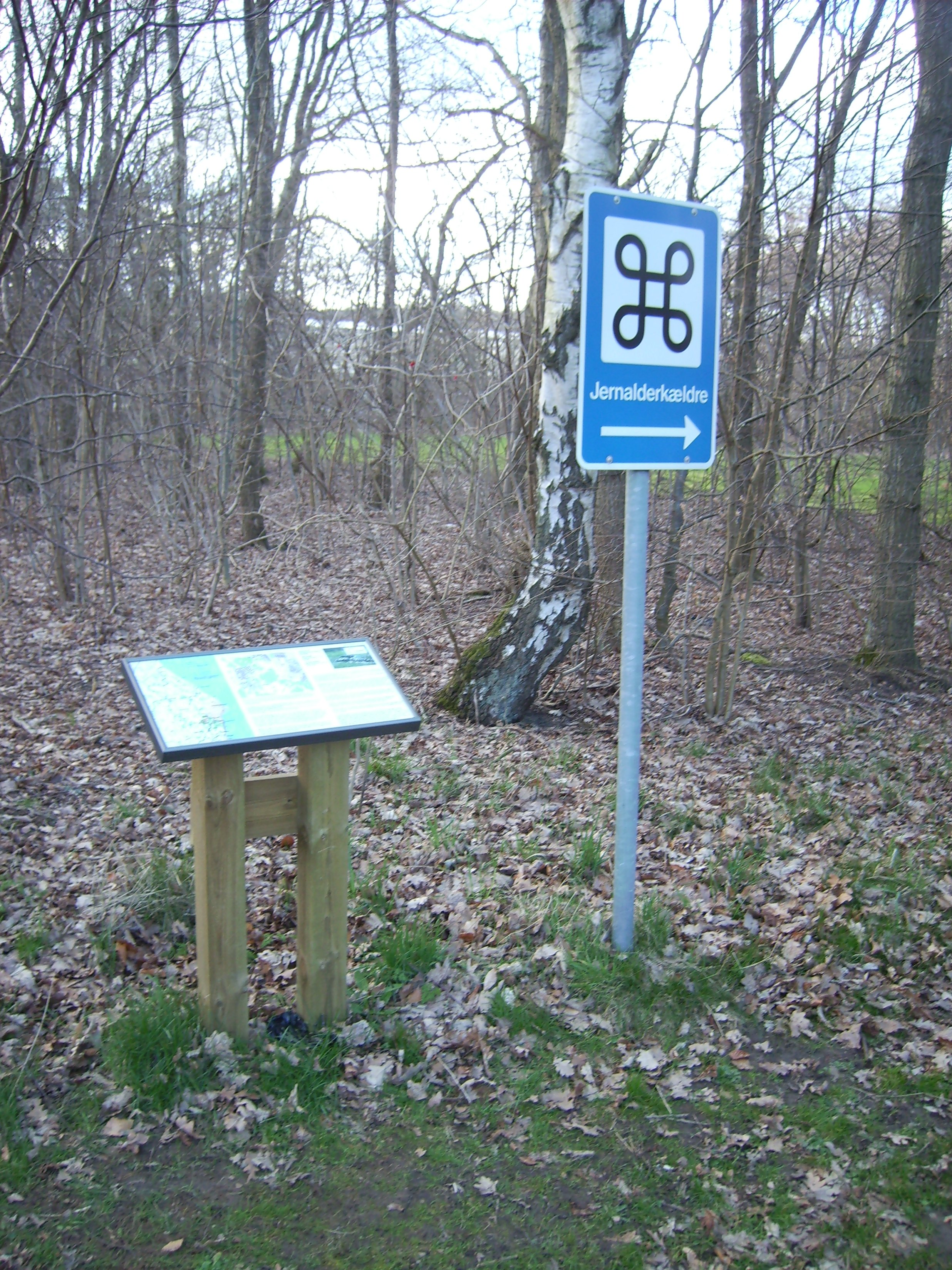 On Løgten Mark in the parish Flade in Frederikshavn municipality, eight stone-built cellars (Jernalderkældre) were found during an excavation taking place from 1956 til 1959. However, only six of them can be seen. These cellars date back to the centuries up to the birth of Christ (pre-Roman Iron Age) and along similar cellars around Frederikshavn they established a special type which is not seen elsewhere. They were built as storerooms under or close to the house of the village of that time. Stednavne: Løgten Mark, Flade sogn, Frederikshavn Kommune. Anlæg Jernalderkældre.